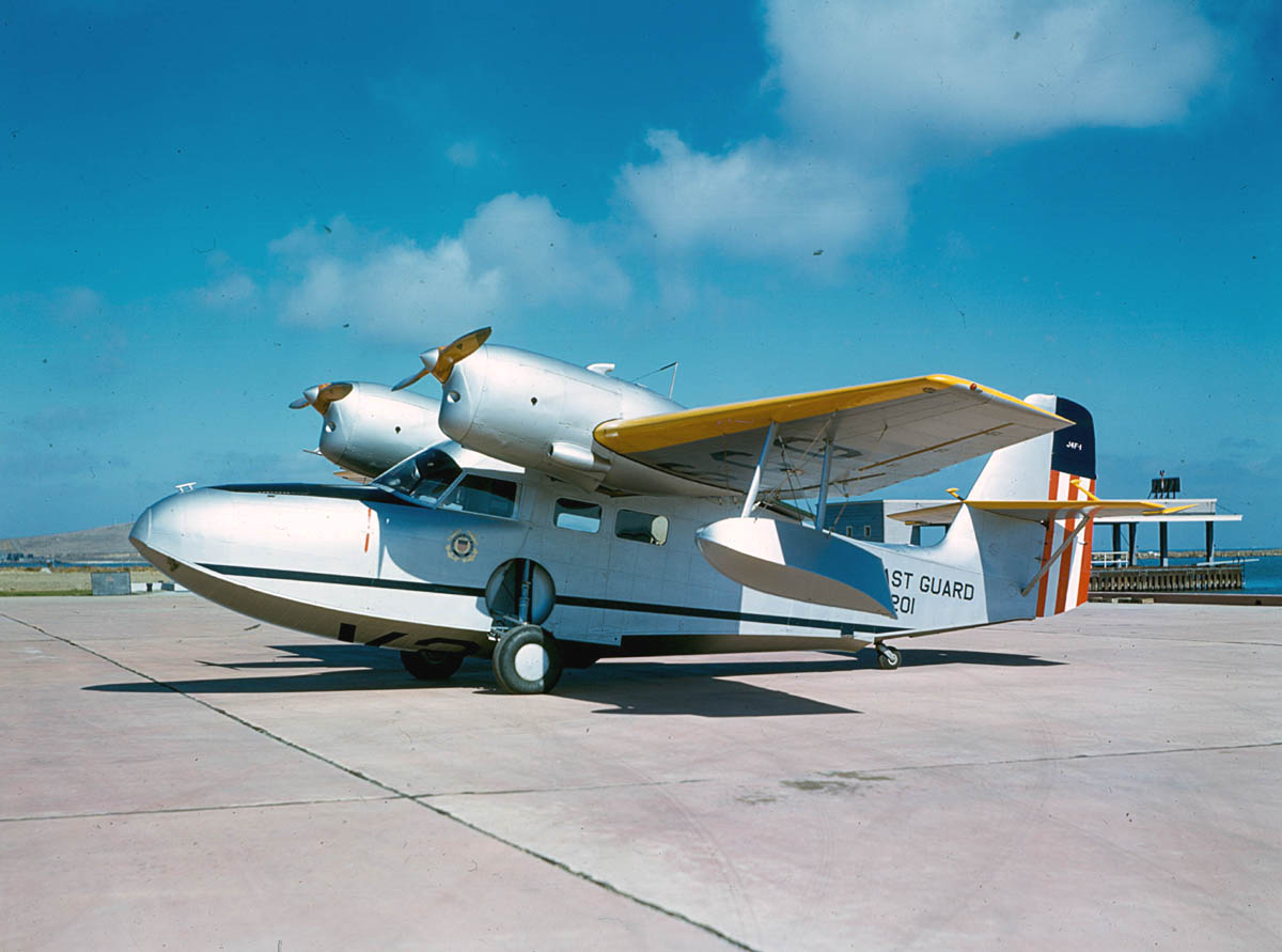 New Grumman J4F-1 Widgeon just delivered to the San Francisco Coast Guard Air Station. Photo taken in October 1941.